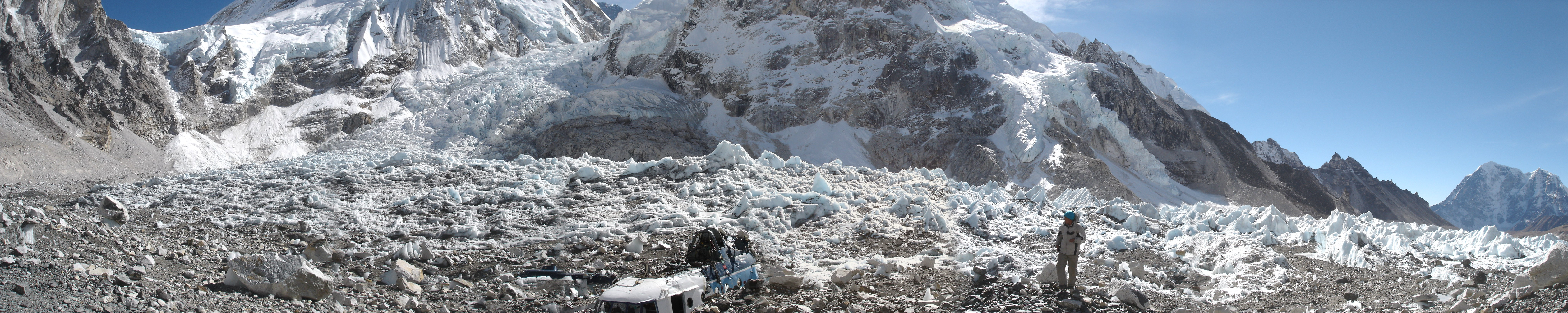 A view of Everest southeast ridge base camp. The Khumbu Icefall can be seen in the left. In the center we can see the remains of a helicopter that crashed there in 2003.